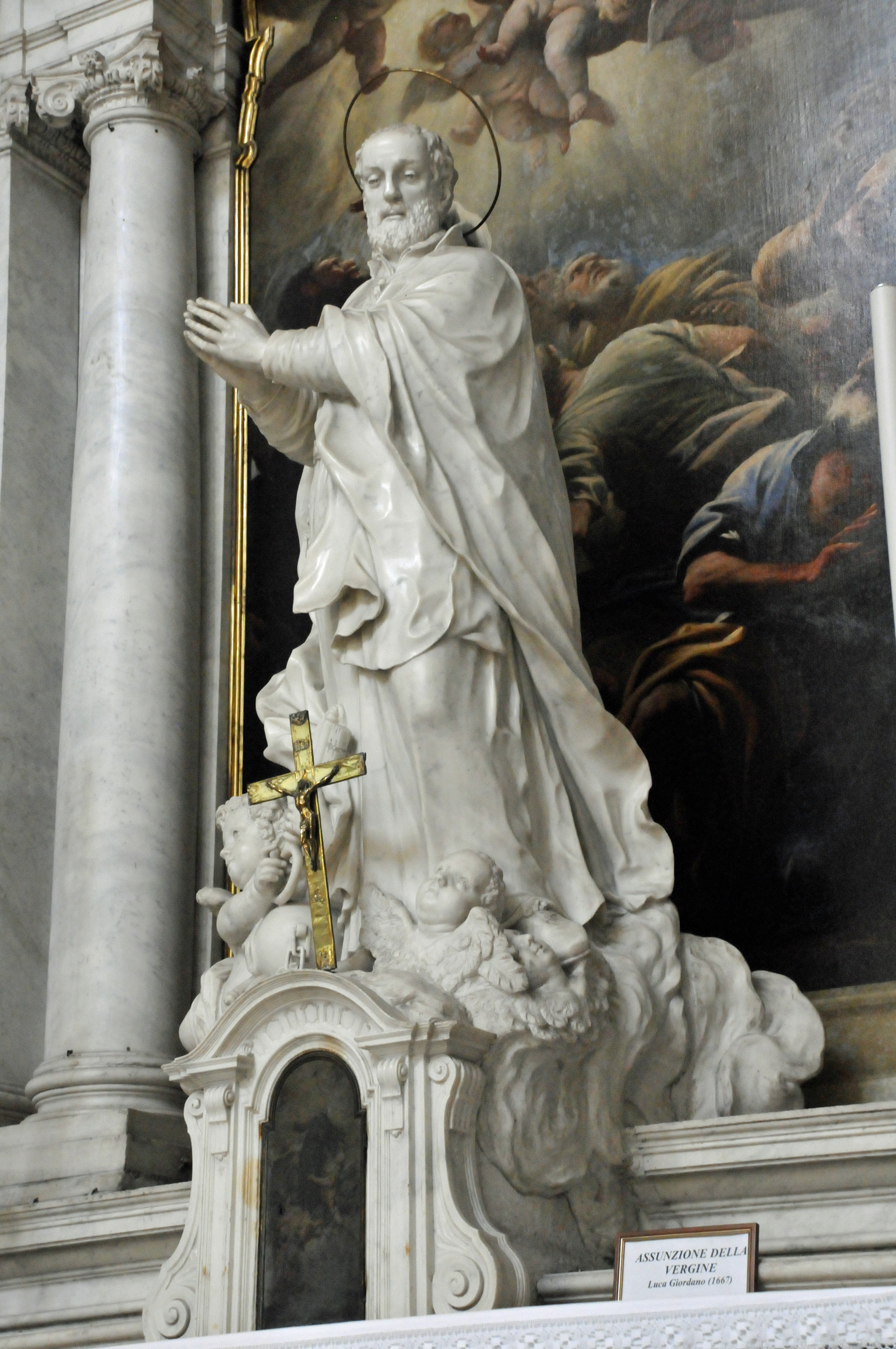 Girolamo Miani by Giovanni Maria Morlaiter